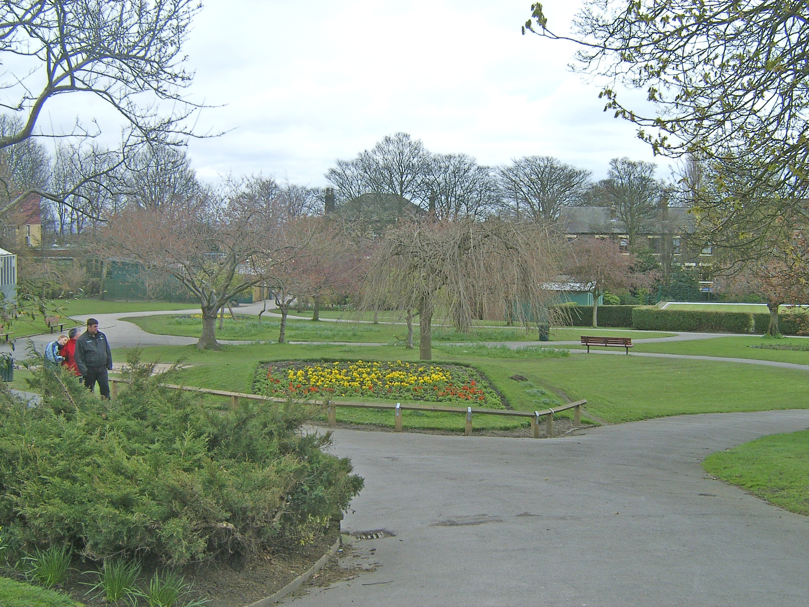 Pudsey Park, Pudsey, West Yorkshire, UK